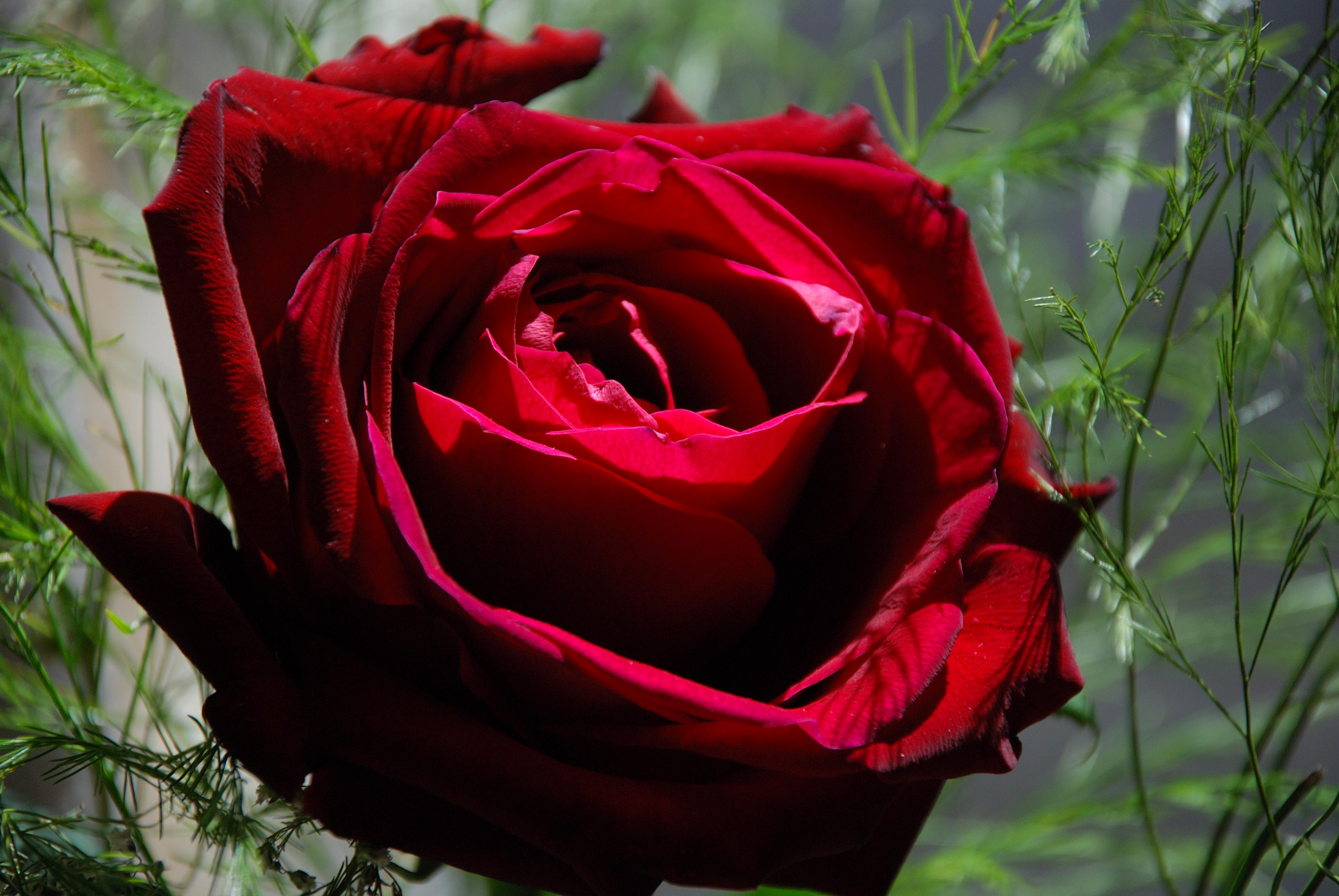 Red Rose, image compressed